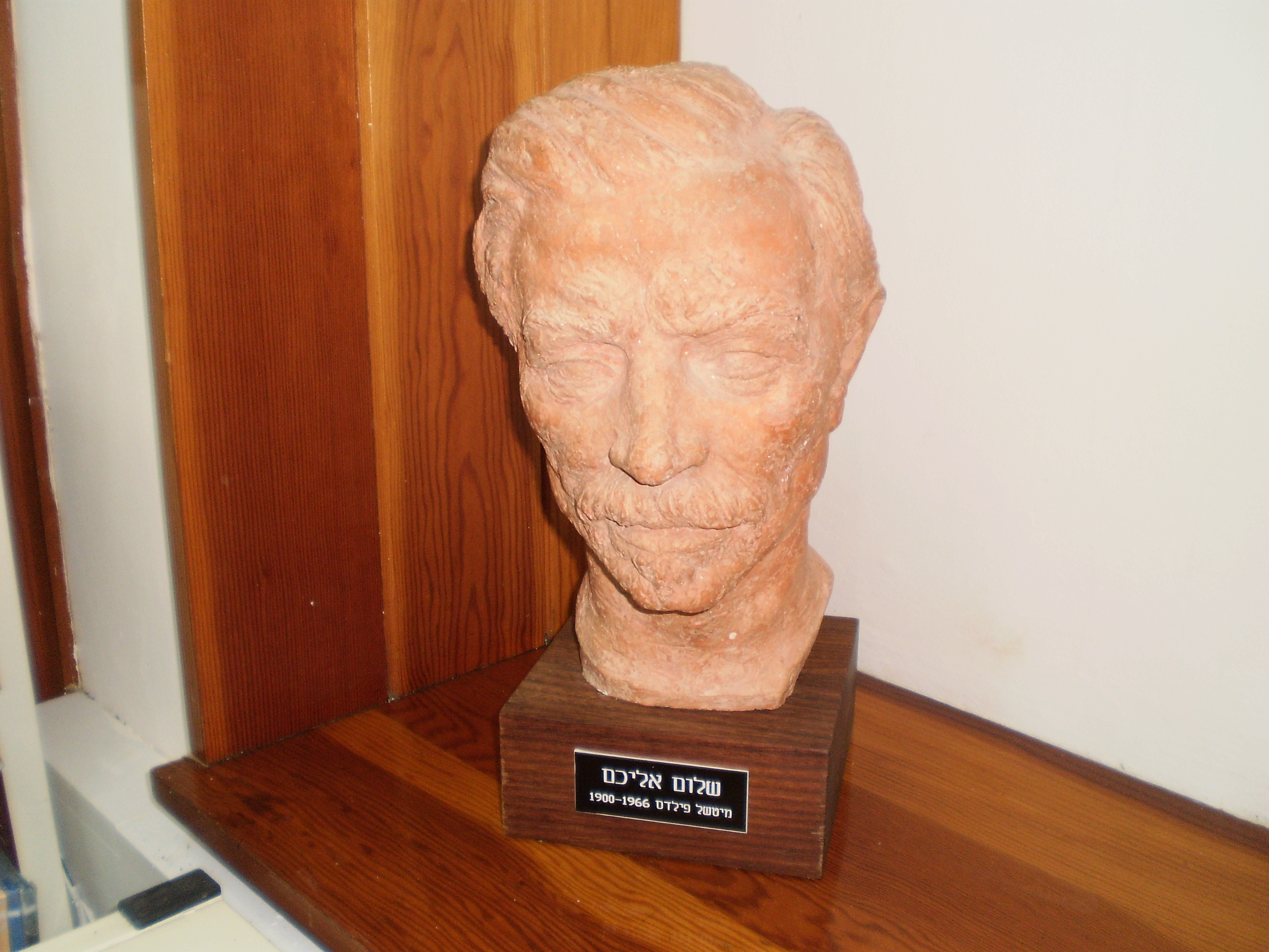 Portrait of the Yiddish author Shalom Aleichem sculpted by Mitchell Fields